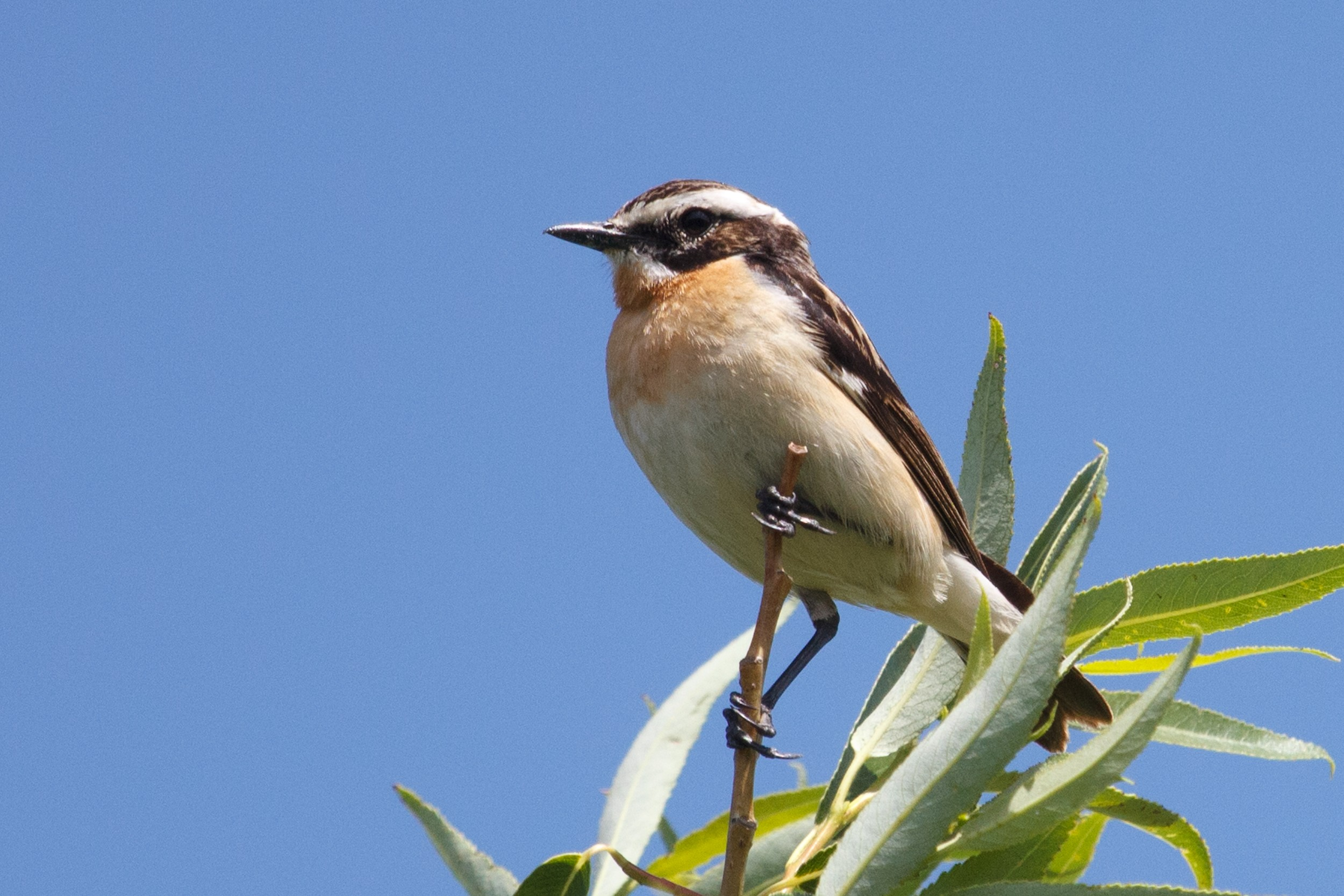 Male Whinchat (Saxicola rubetra) in Nuhnewiesen nature reserve, east of Hallenberg, Sauerland, Germany.